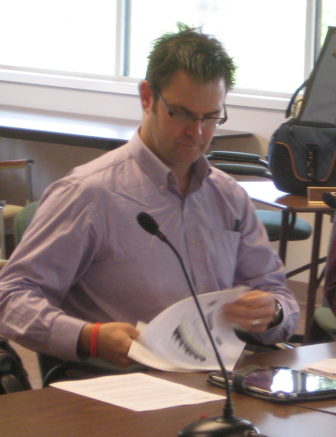 Member of the Legislative Assembly of British Columbia Don McRae (Comox Valley). He is the Minister of Agriculture discussing issues with the Peace River Regional District.